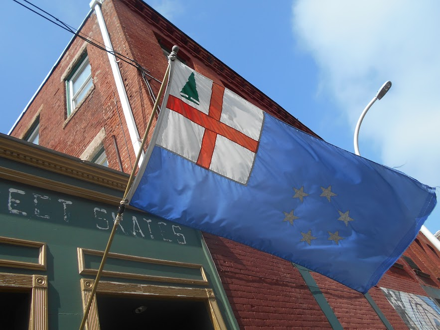 "The Flag of New England as designed by Albert Ebinger of Ipswich MA adopted by the New England Governor's Conference on 8 June 1988"